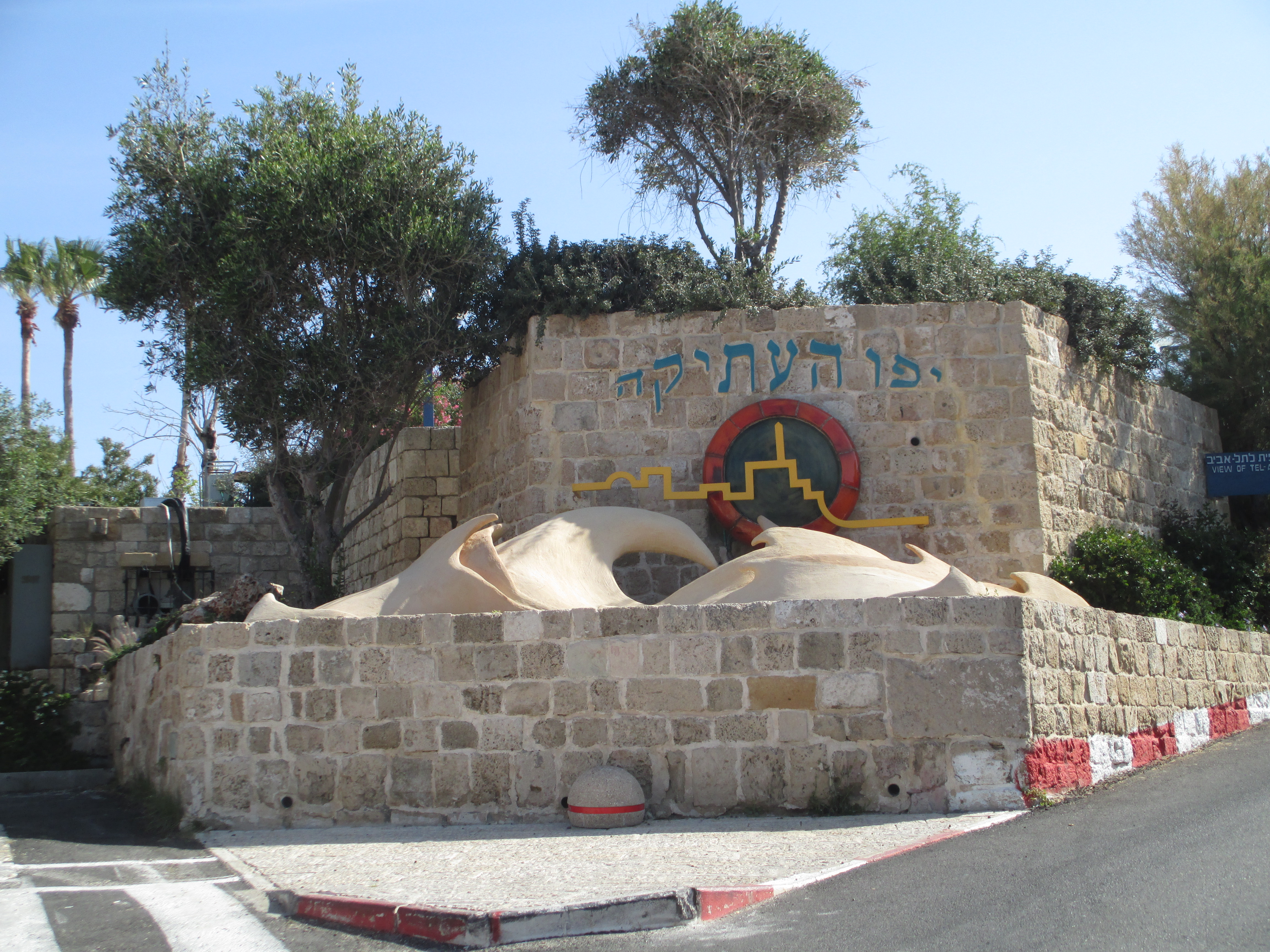 Entrance to old Jaffa